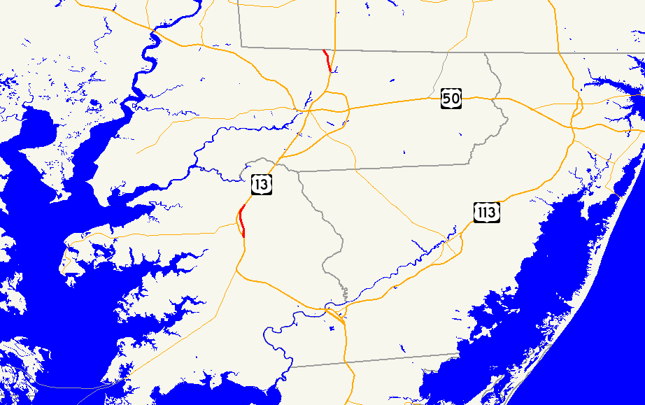 Map of Maryland Route 675